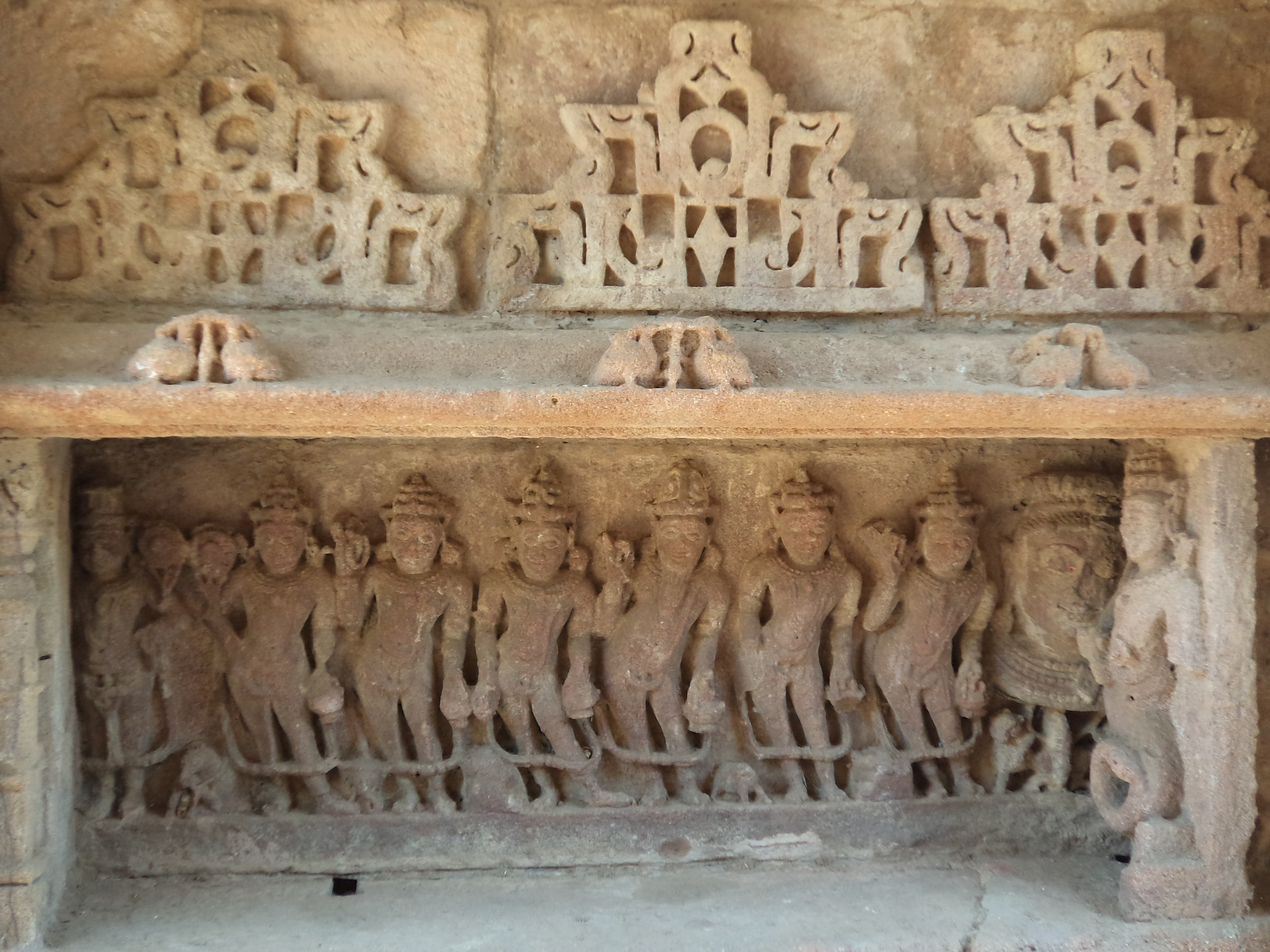 An ancient architecture of well at Kaleshwari in Mahisagar District, Gujarat, India.